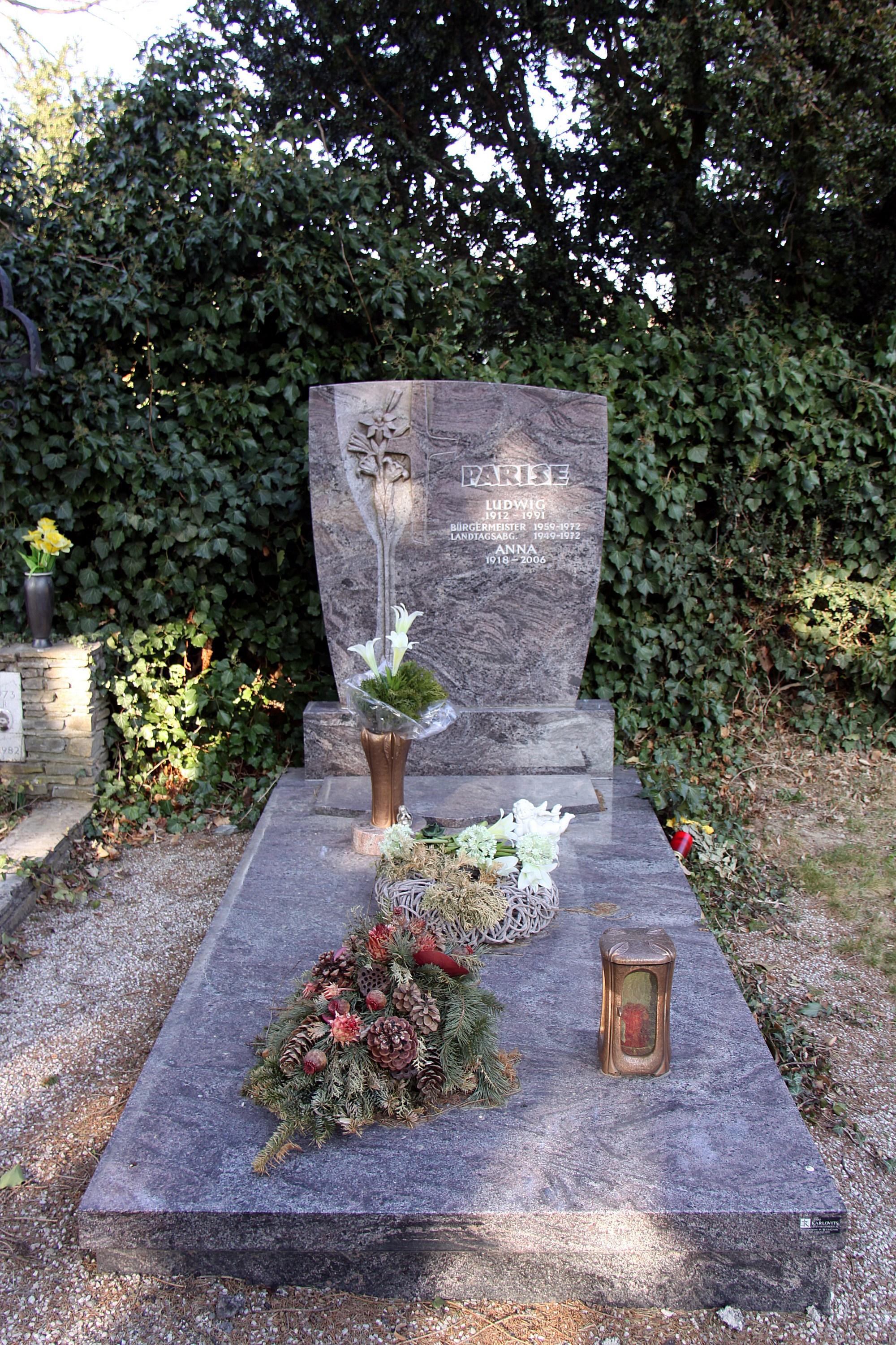 Honour grave of the politican Ludwig Parise (* 1912-08-13, † 1991-04-19) in the cemetry of Pöttsching. Object location47° 48′ 29.79″ N, 16° 22′ 13.18″ E